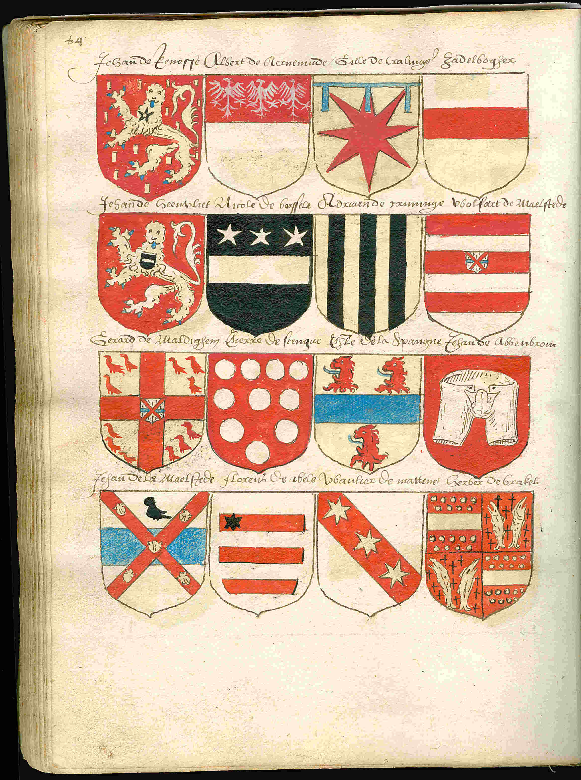 Page 64 from a copy of the Beyeren armorial / Wapenboek Beyeren from ca. 1600. The original Beyeren armorial from 1405 can be viewed at the website of the KB